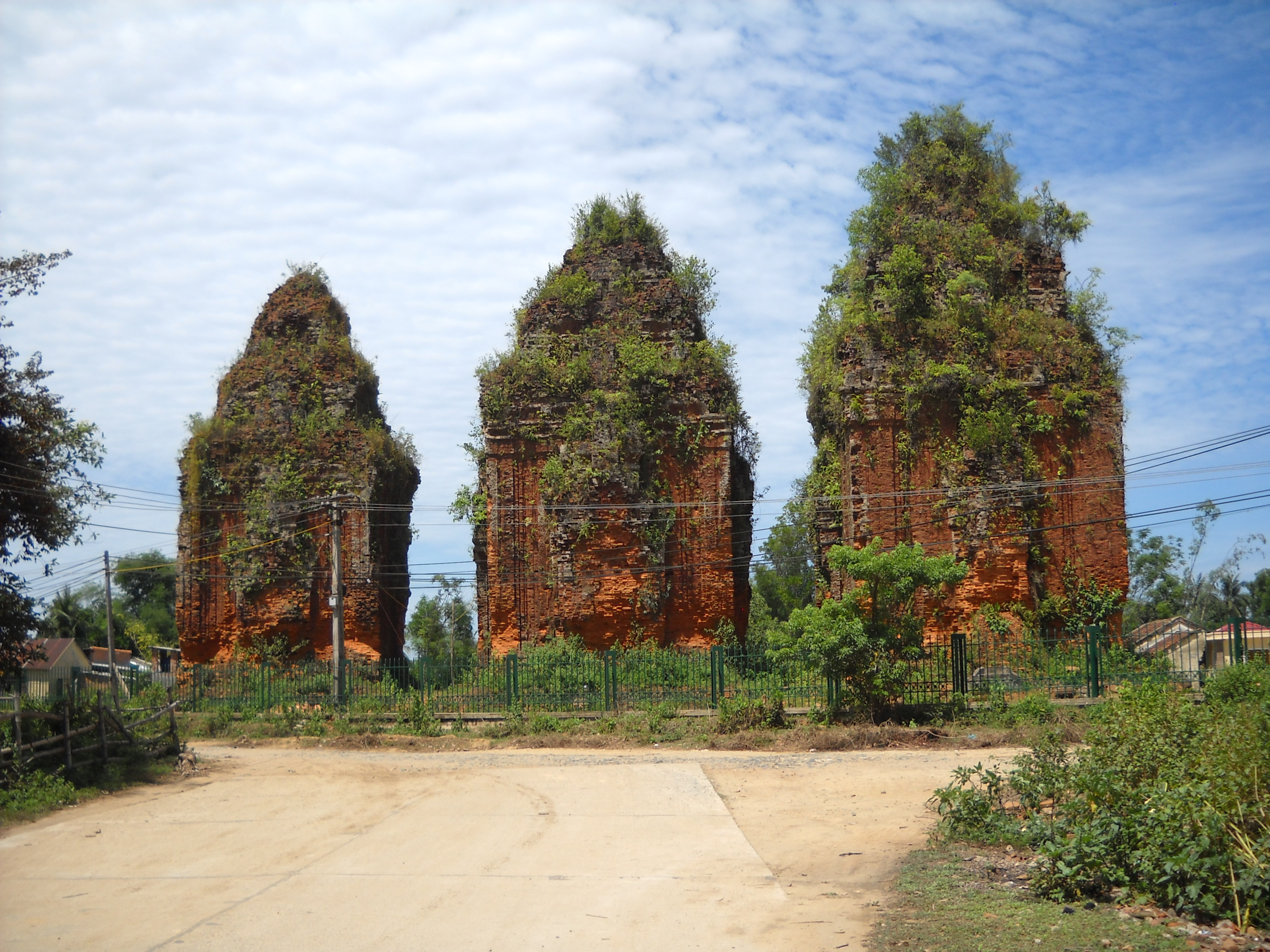 Cham tower Khuong My in Quang Nam Province, Vietnam